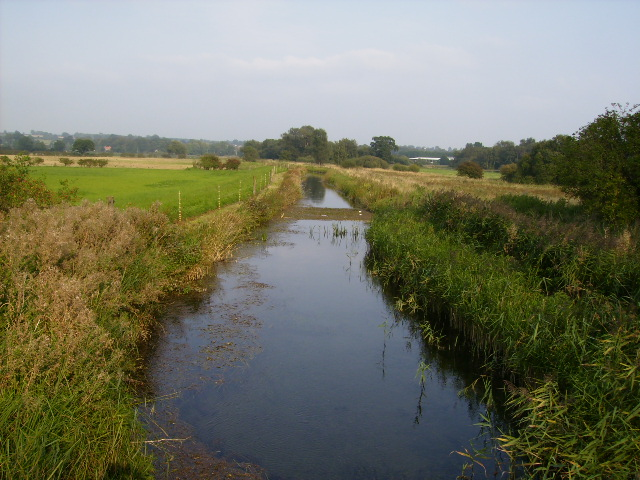 Costa Beck looking ENE from the footbridge.